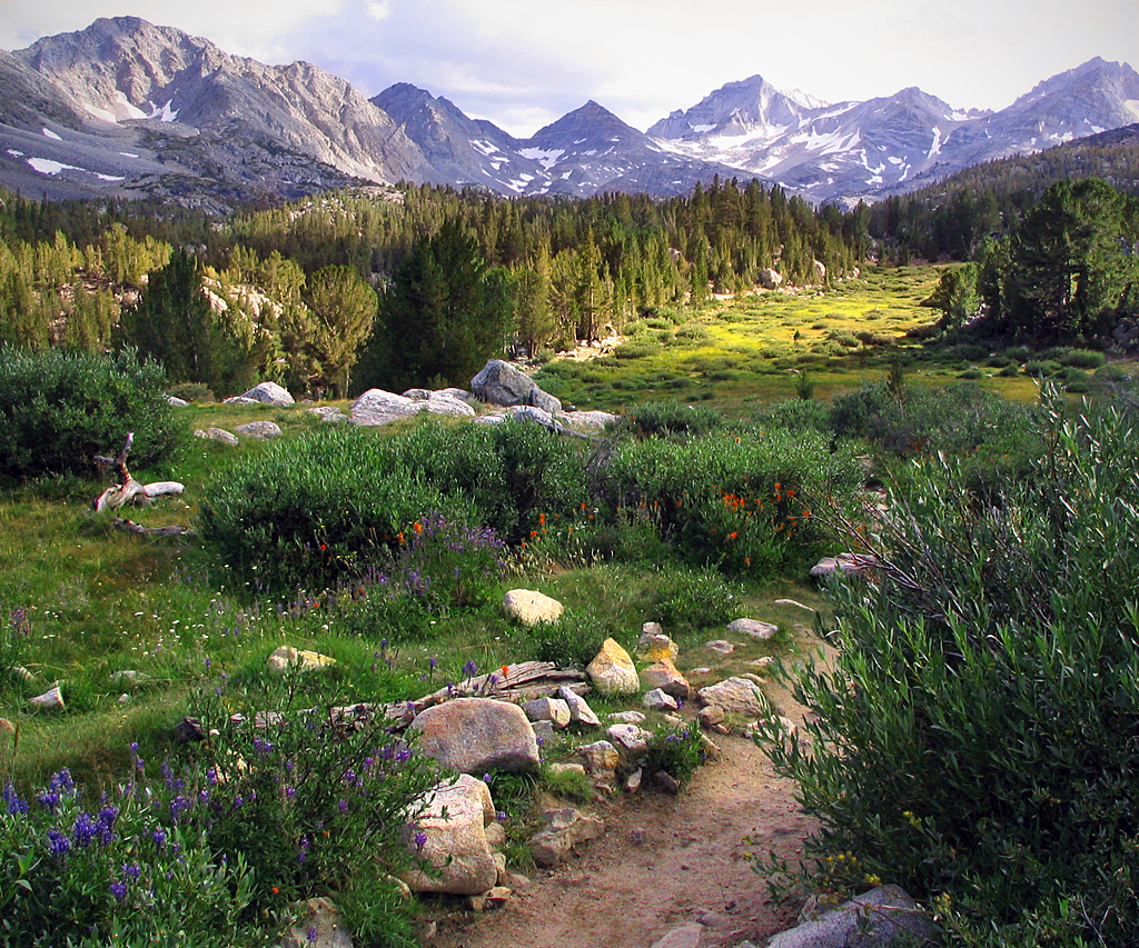 Little Lakes Valley, Eastern Sierra Nevada, California (original trip report)